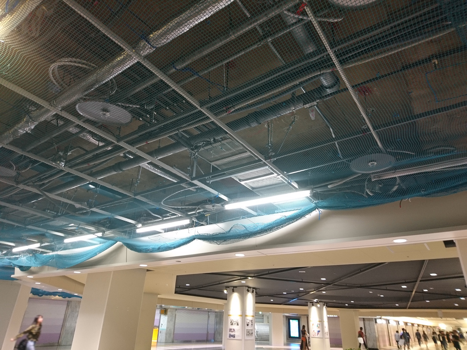 Exposed fire sprinklers during renovation work in Sakae Chika underground shopping center, Nagoya, Japan.